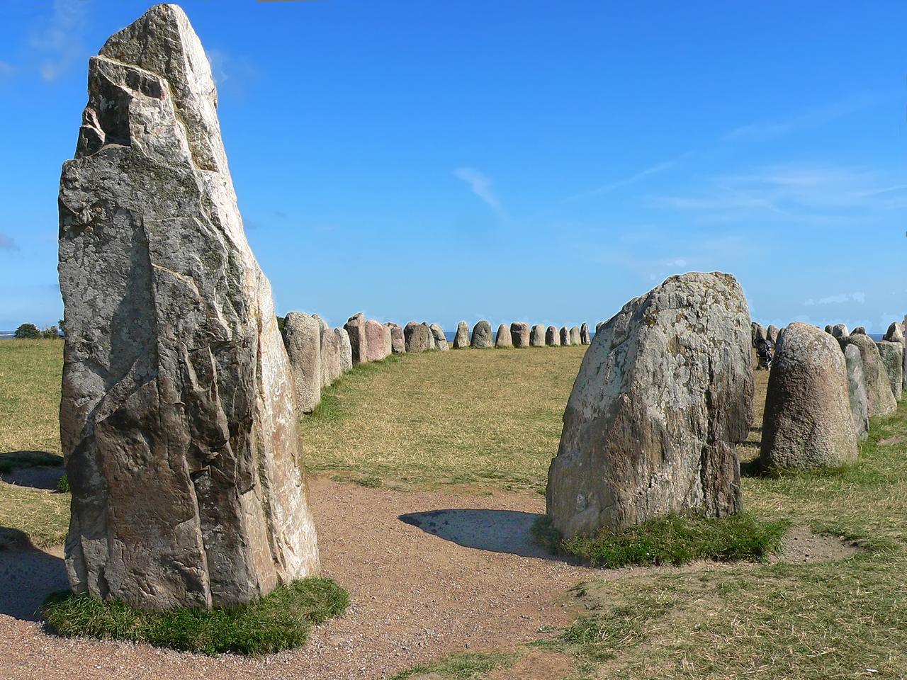 Old historic monument. For more information visit